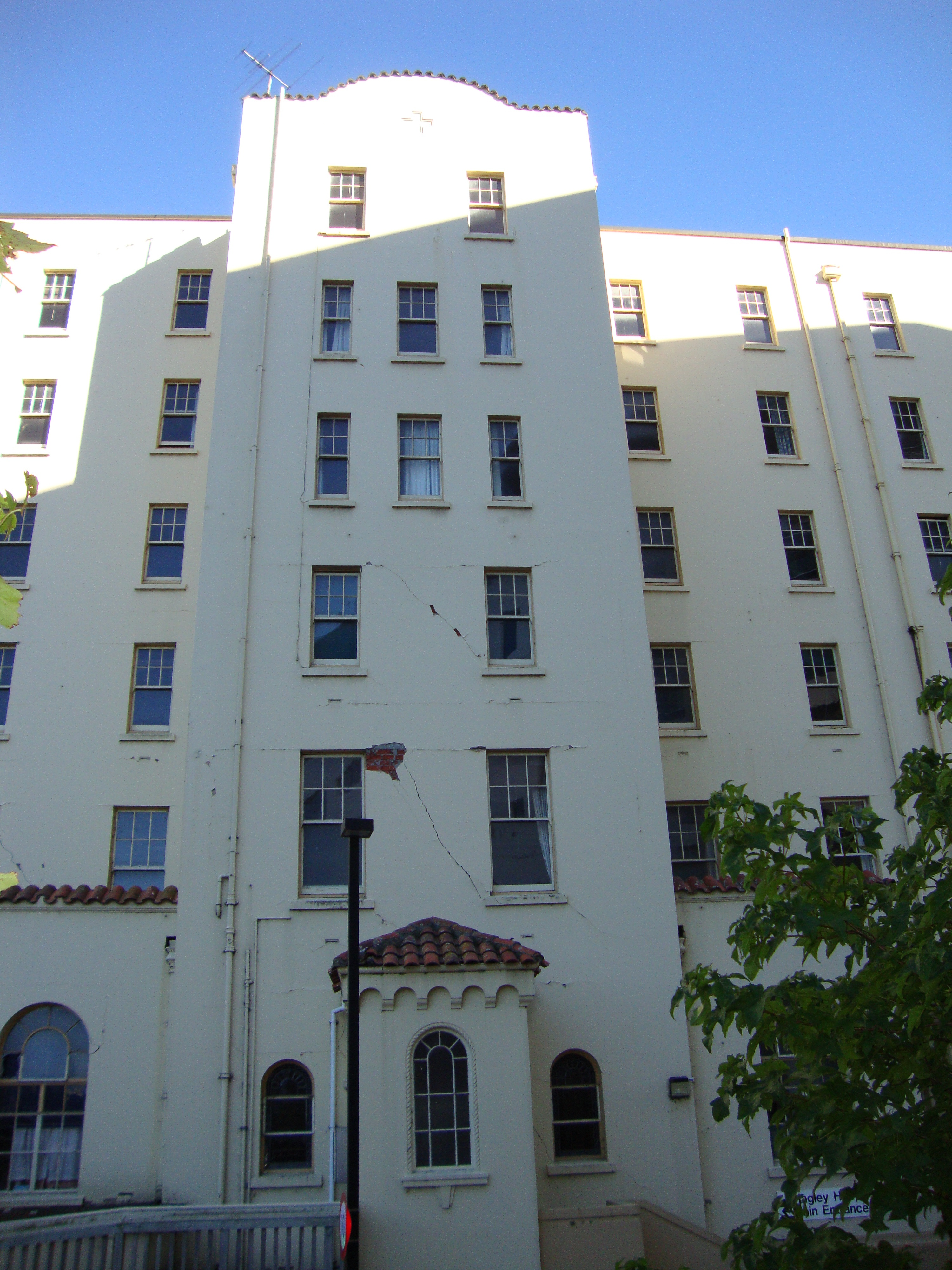 The Nurses Hostel on the Christchurch Hospital grounds displaying damage after the 22 February 2011 earthquake.